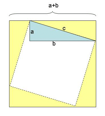 Pitagora demostration; concentric squares of Pomi